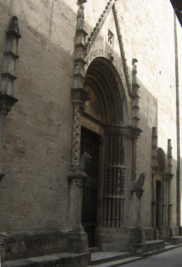 Ascoli Piceno – Church of San Francesco - Main entrance